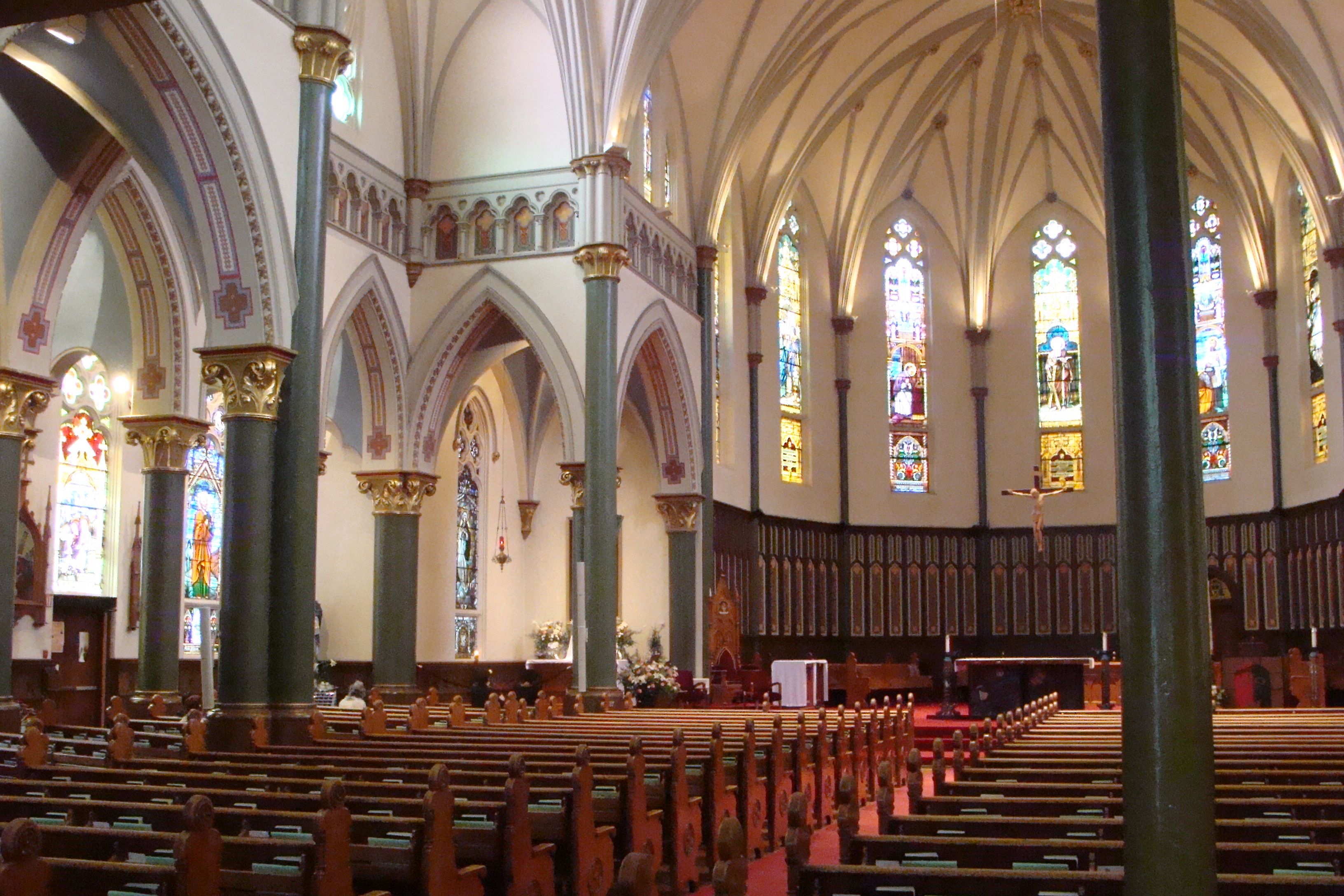 St. Andrew's Cathedral enterior